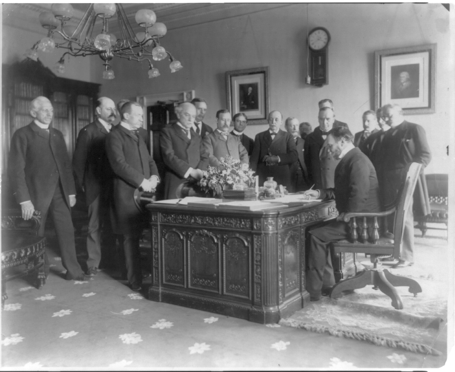 Title: Exchange of the ratifications of the treaty of peace with Spain, made in the President's office, White House, Secretary of State John Hay signing Abstract/medium: 1 photographic print.